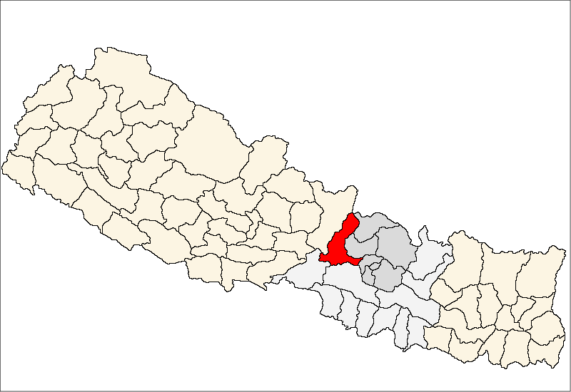 FrenchCarte de localisation dudistrict de Dhading(wp-FR),au Népal (wp-FR).EnglishLocation map ofDhading District(wp-EN),in Nepal (wp-EN).